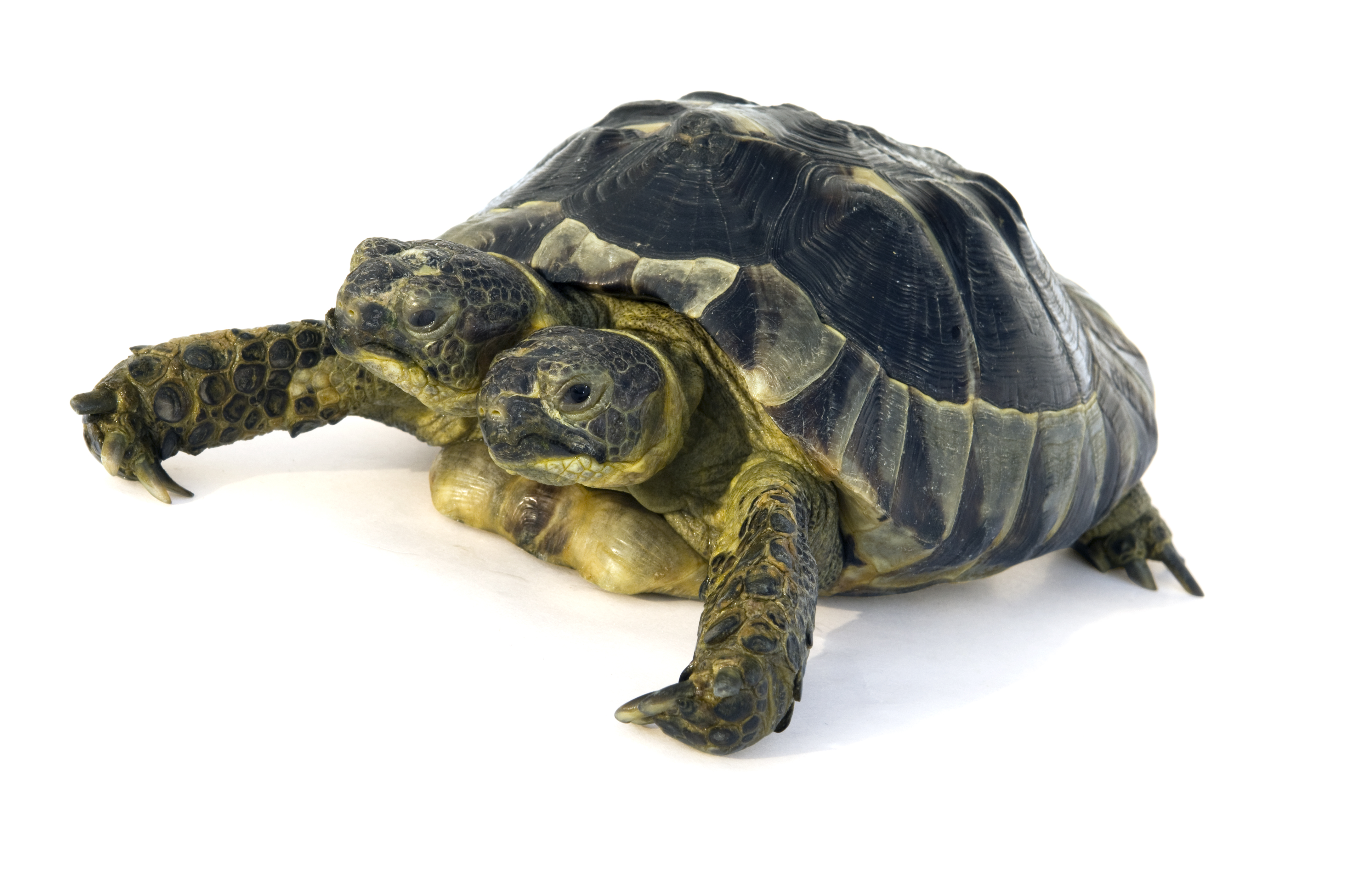 Janus, (Testudo graeca) the two-headed tortoise exhibited in the Natural History Museum of Geneva